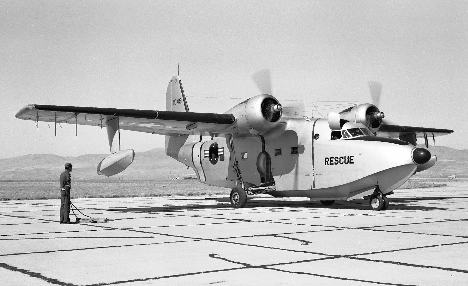 USAF SA-16A at Gowen Field, Boise, Idaho in August 1952.